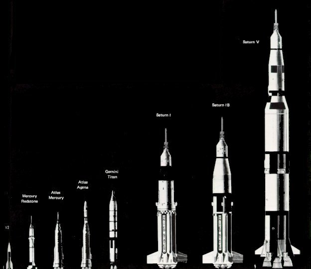 Saturn Rocket Family Comparison